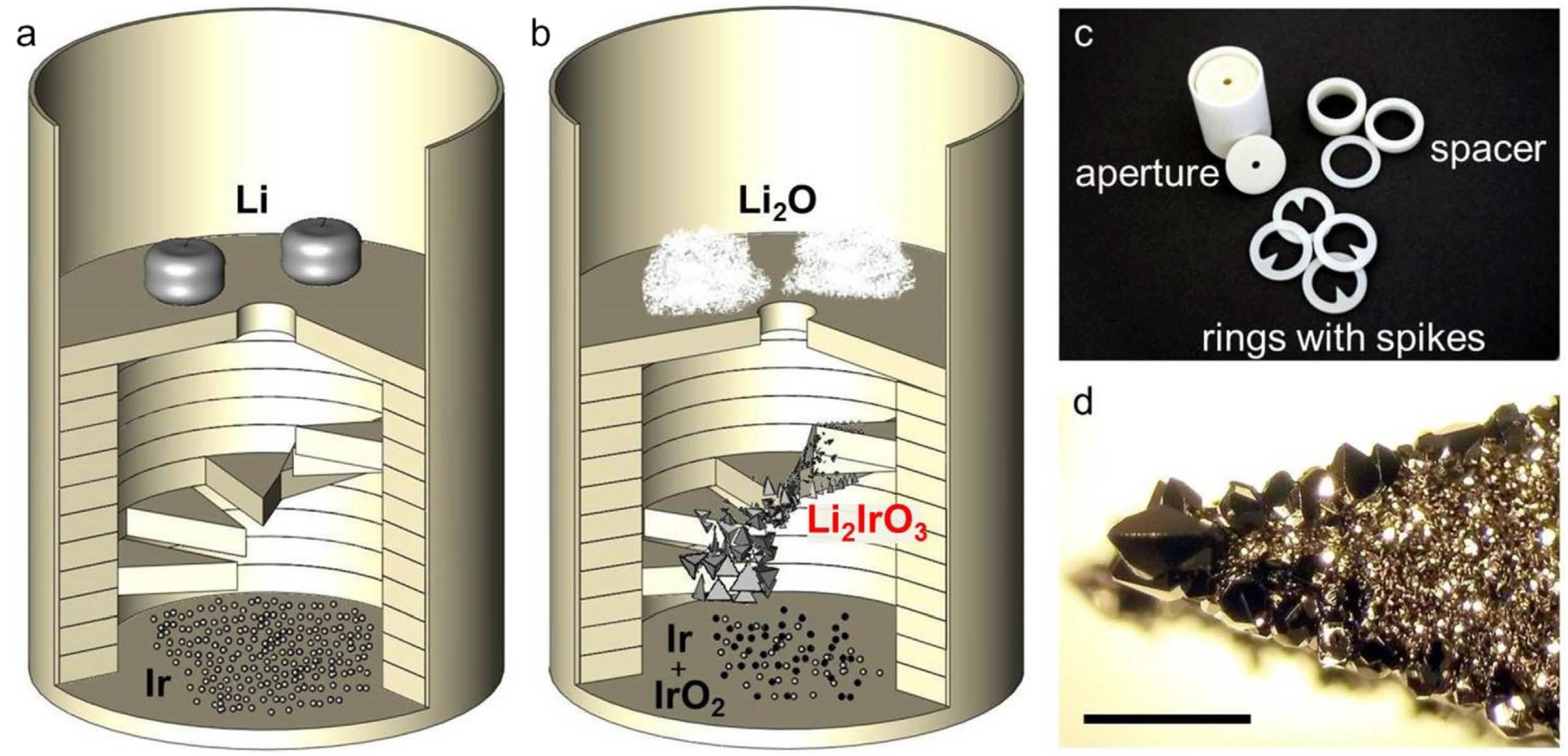 Arrangement of the materials before and after the growth process is depicted in (a,b), respectively. The rings with spikes are oriented like a spiral staircase in order to allow for nucleation at different positions with less intergrowth of the crystals. Formation of the largest α-Li2IrO3 single crystals is observed on spikes placed roughly 4 mm above the Ir starting material. (c) individual setup parts made from Al2O3 and (d) typical appearance of one of the lower spikes covered with α-Li2IrO3 crystals at the bottom side, scale bar 1 mm.